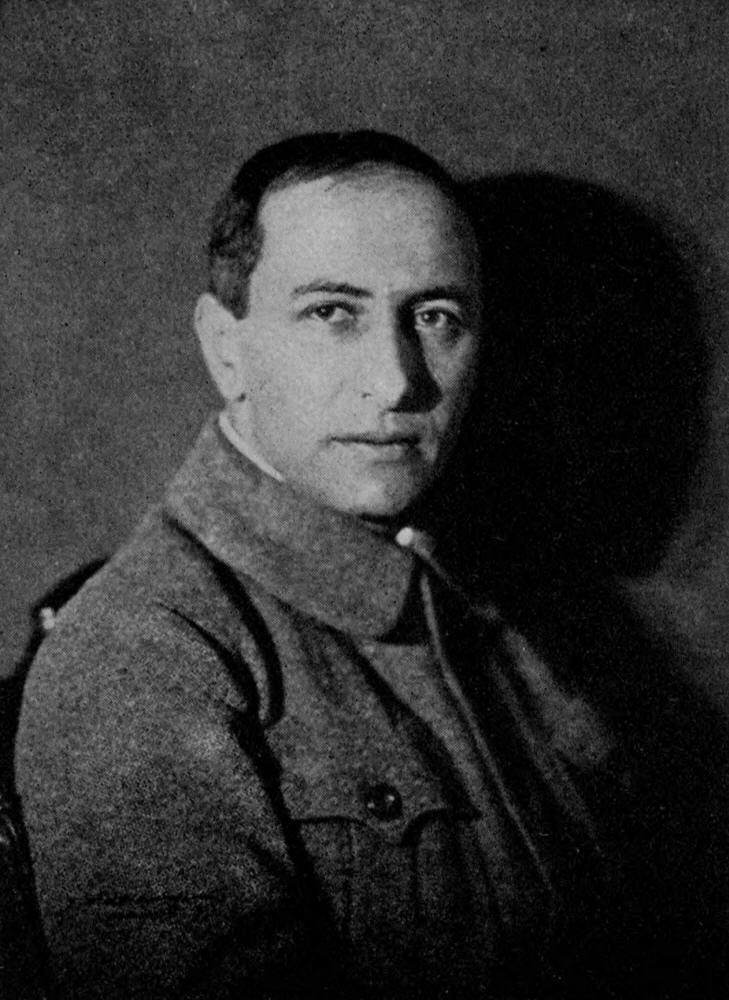 Portrait of Sergei Shuk.